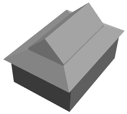 japanese roof style "shikoro" sample picture.